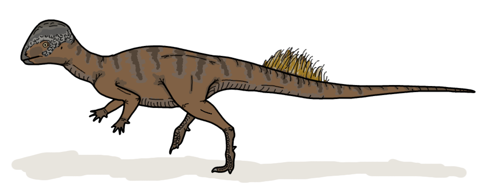 Life restoration of Foraminacephale brevis, with postcrania based on relatives Homalocephale and Stegoceras.